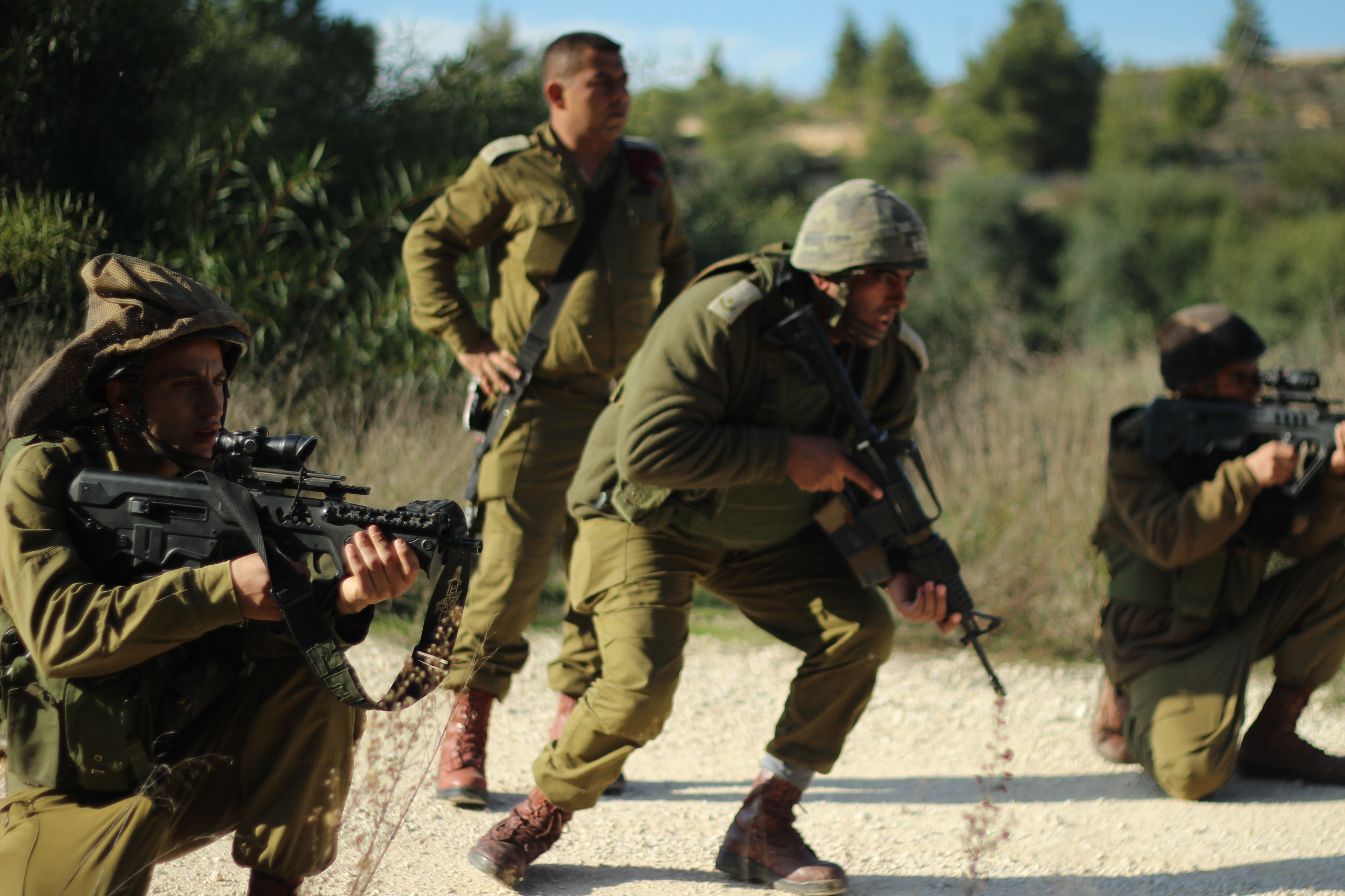 December 18, 2012 The Bedouin Reconnaissance Battalion works to thwart illegal infiltration attempts into Israeli territory. They track down anyone from terrorists to drug smugglers. The latest generation of trackers recently concluded their basic training, and are currently in the middle of a course meant to further hone their skills, held twice a year in the Central Command. Pictured: A senior trackers' officer supervises the exercise and gives the soldiers professional advice. Photographer: Cpl. Zev Marmorstein, IDF Spokesperson Unit For more from the IDF